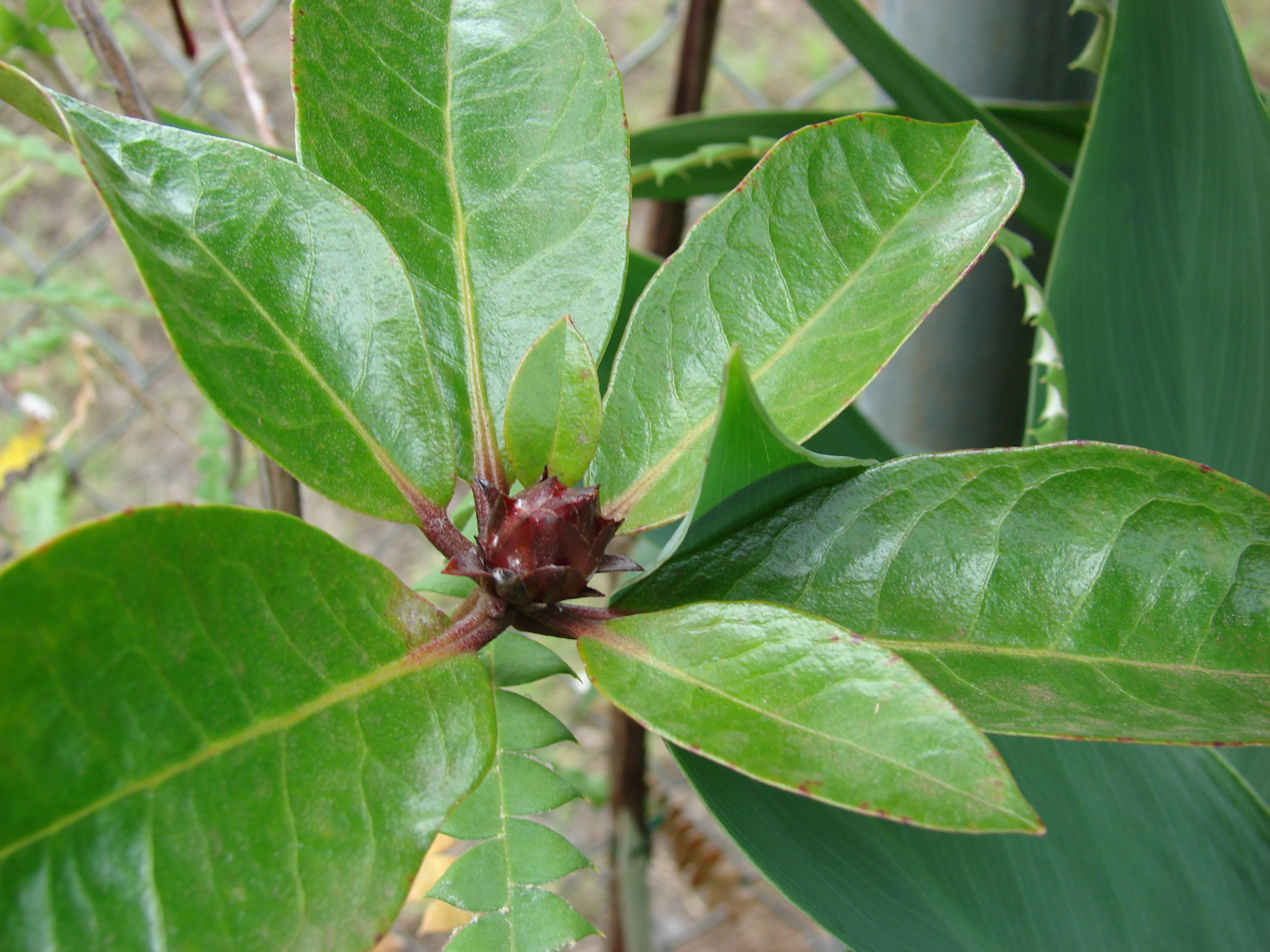 Rhododendron sp. (Golden charm vireya leaves). Location: Maui, Kula Ace Hardware and Nursery